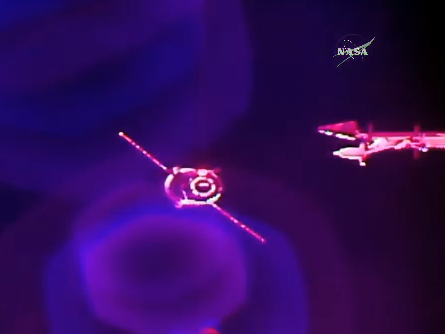 The unmanned Russian Progress MS-06 has successfully automatically docked to the International Space Station.